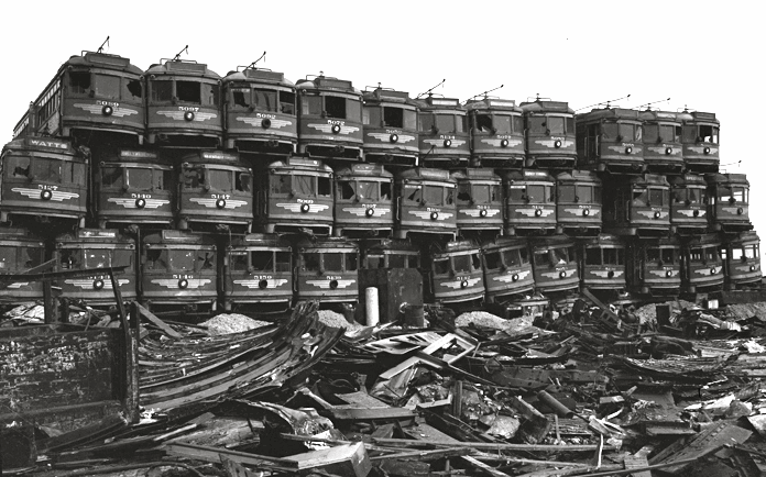 AWAITING DESTRUCTION--Old Pacific Electric cars are piled up like toys at junkyard on Terminal Island, awaiting dismantling to become scrap metal.